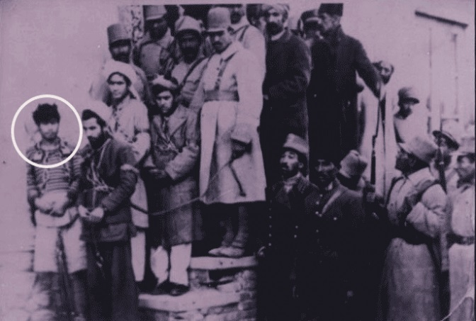 Abdul Khaliq Hazara, (1916 - 1933), was the assassin of King Mohammed Nadir Shah on 8 November 1933.